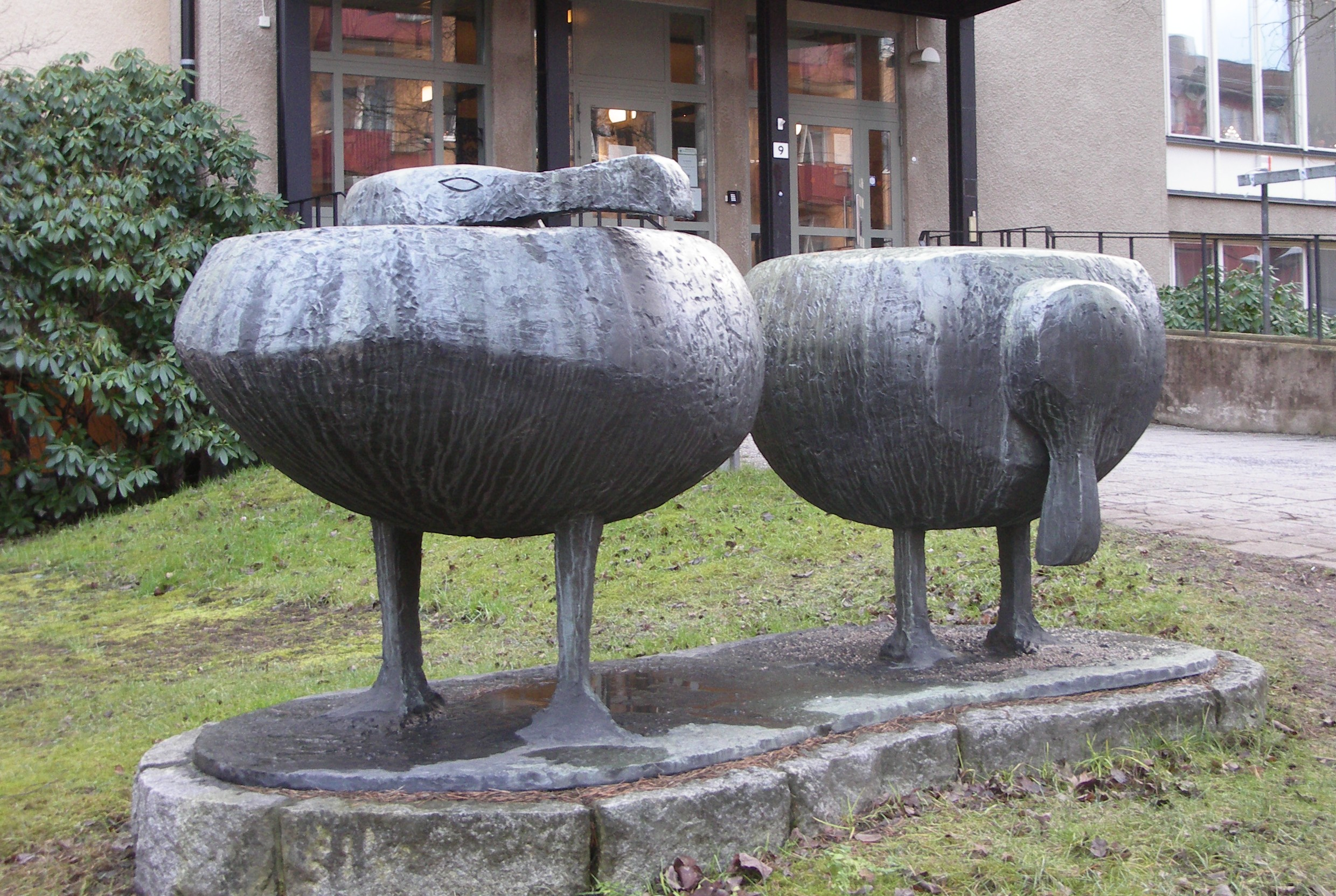 Wing control (Vingkontroll), bronze, 1973, by Karl-Gunnar Lindahl , Västertorp, Sweden